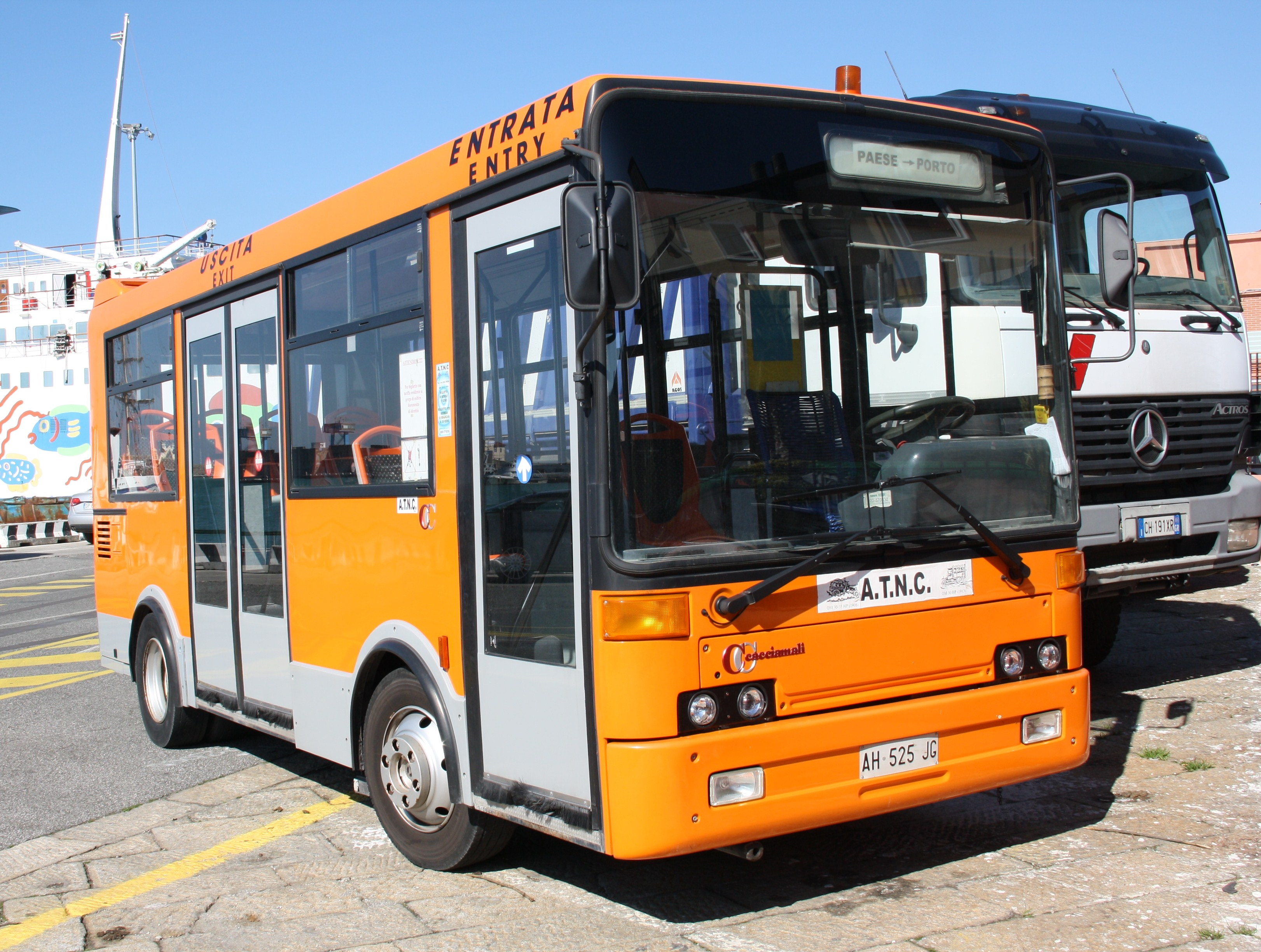 Italy, Tuscany, Capraia. ATNC Cacciamali mini bus (unidentified type) in service on the island.